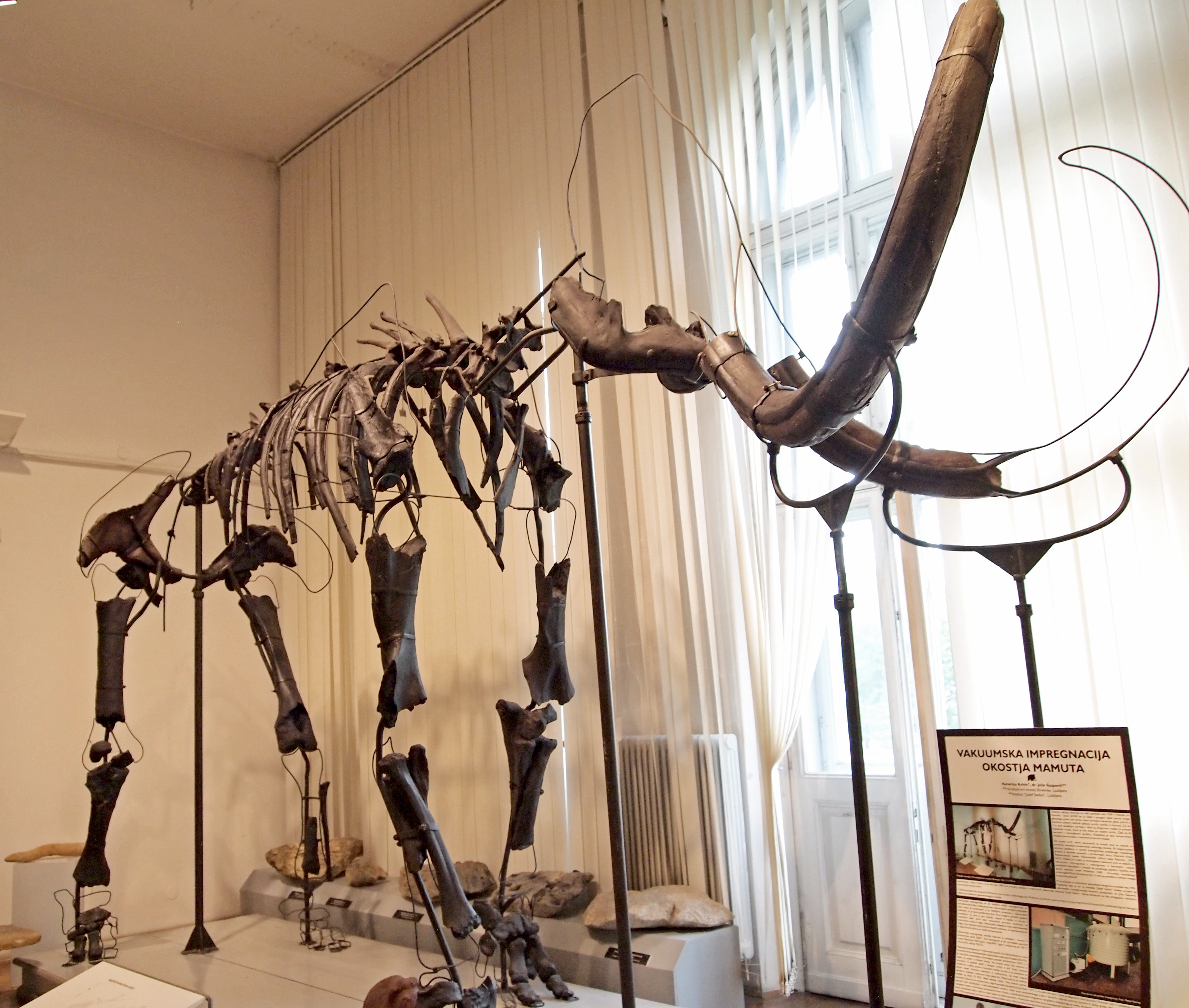 Mammuth skeleton in Natural History Museum of Slovenia. This photograph was taken with a Olympus E-PL1.